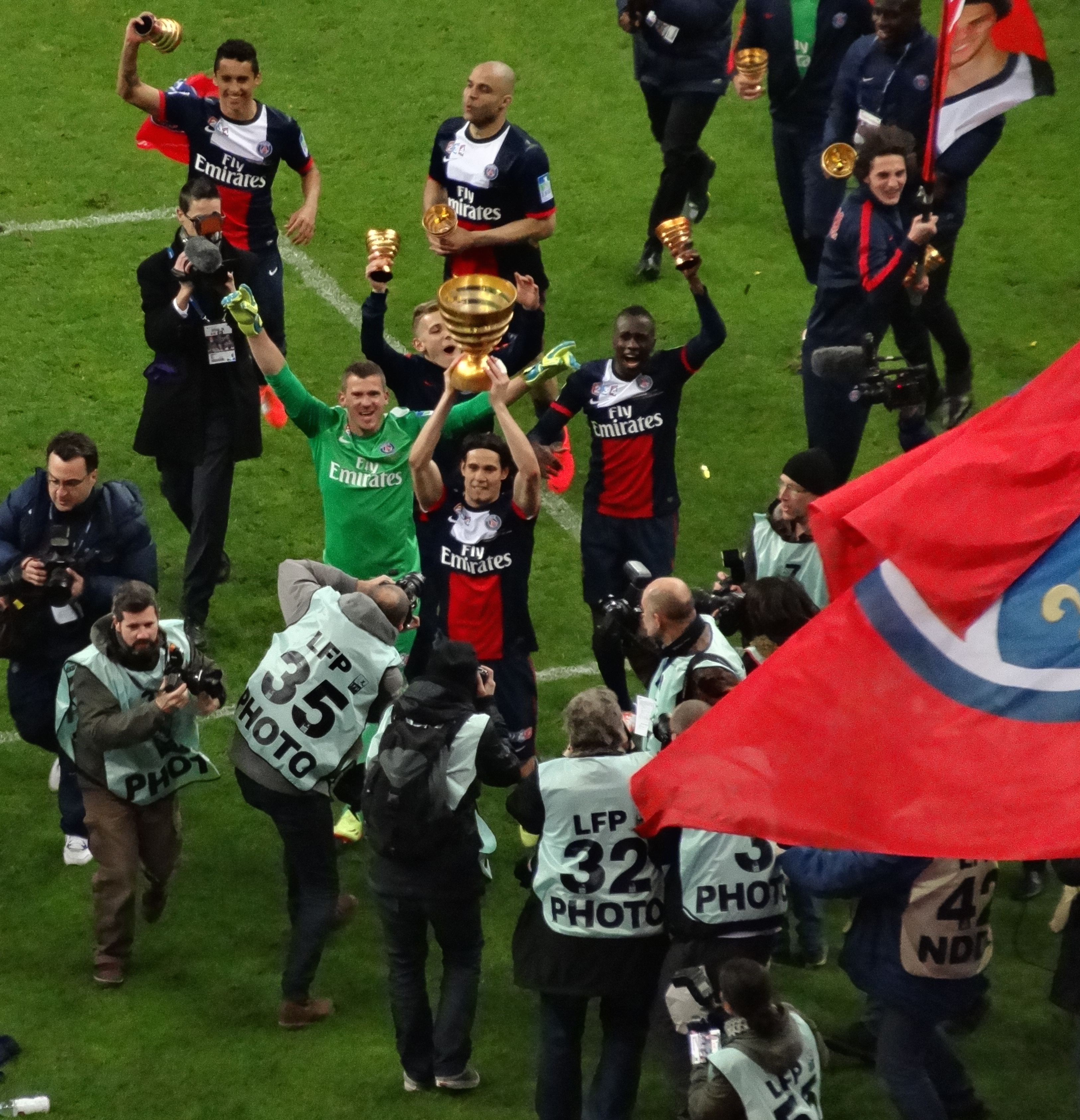 Paris Saint-Germain, Coupe de la Ligue 2014 winner with Cavani